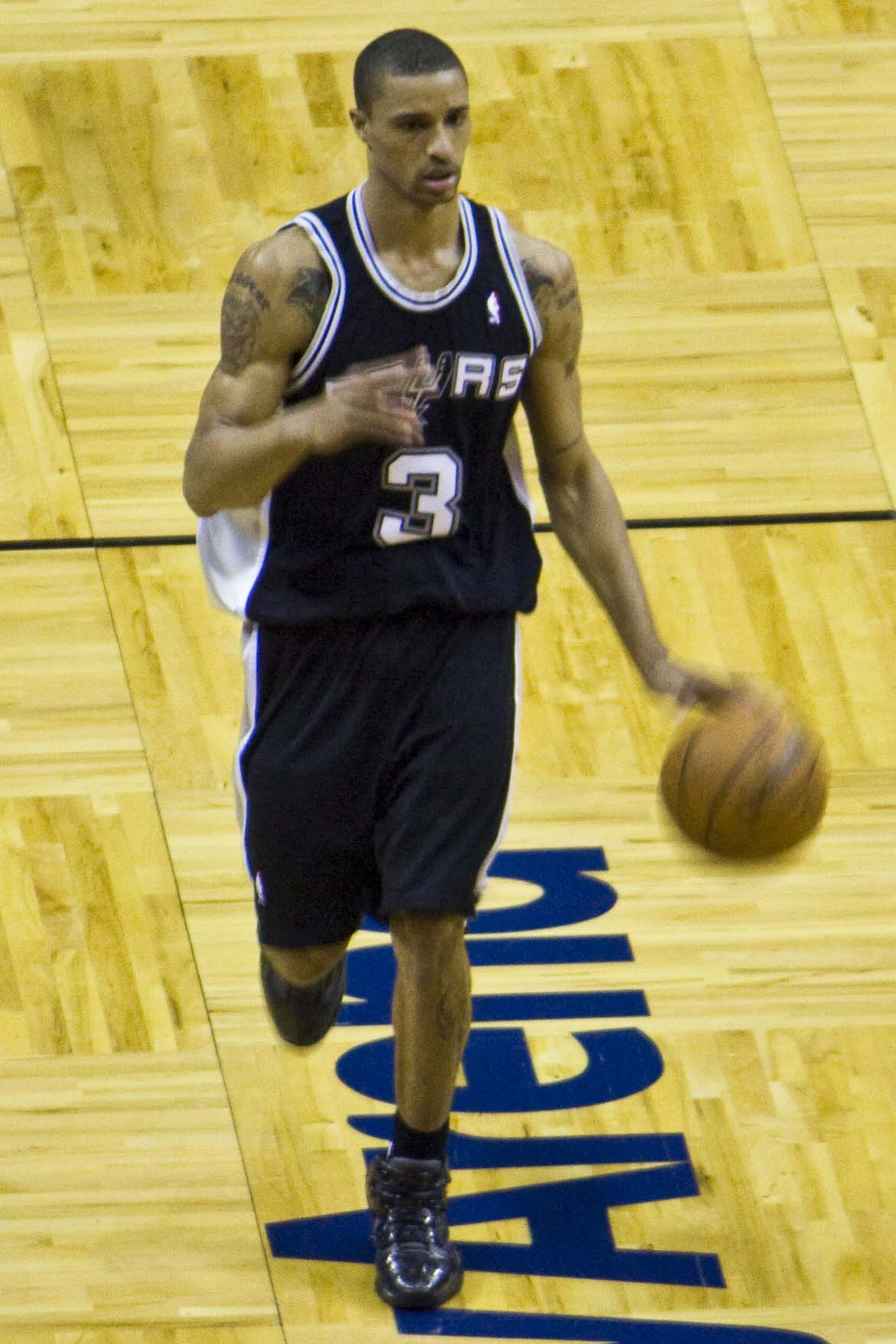 George Hill of the San Antonio Spurs